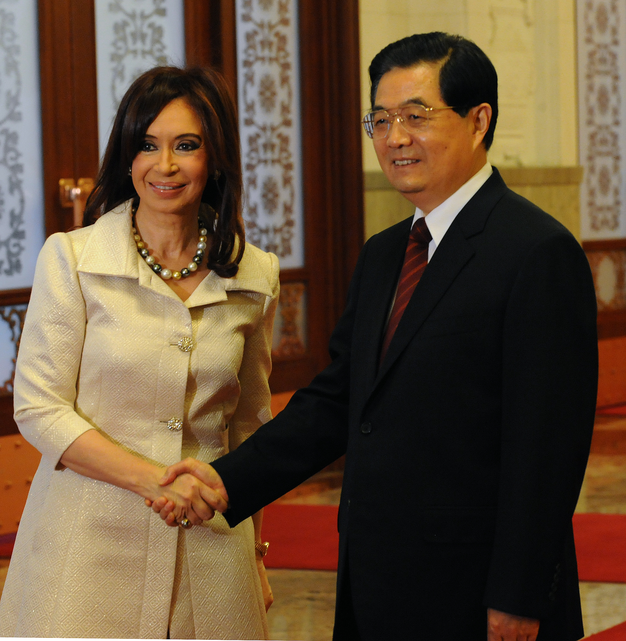 Presidents of Argentina Cristina Fernandez and China Hu Jintao meet in Beijing